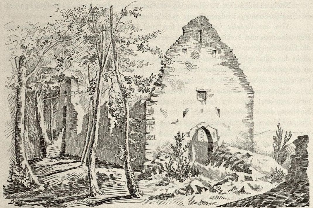 Ruins of St. Severin chapel in Denzlingen, Baden-Württemberg, around 1900. This was the mother parish of St. Blasius, Glottertal